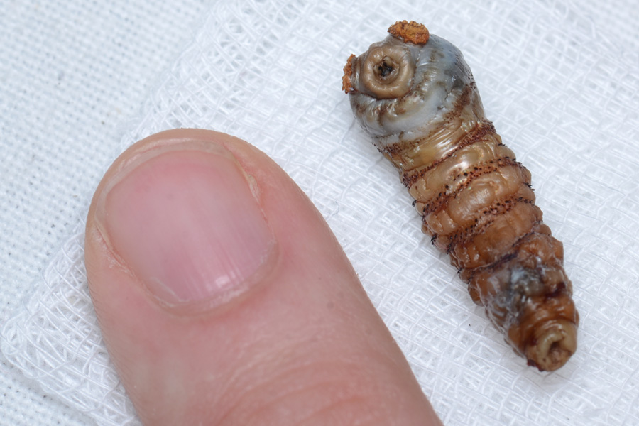 Extracted human botfly larva - Lima, Peru